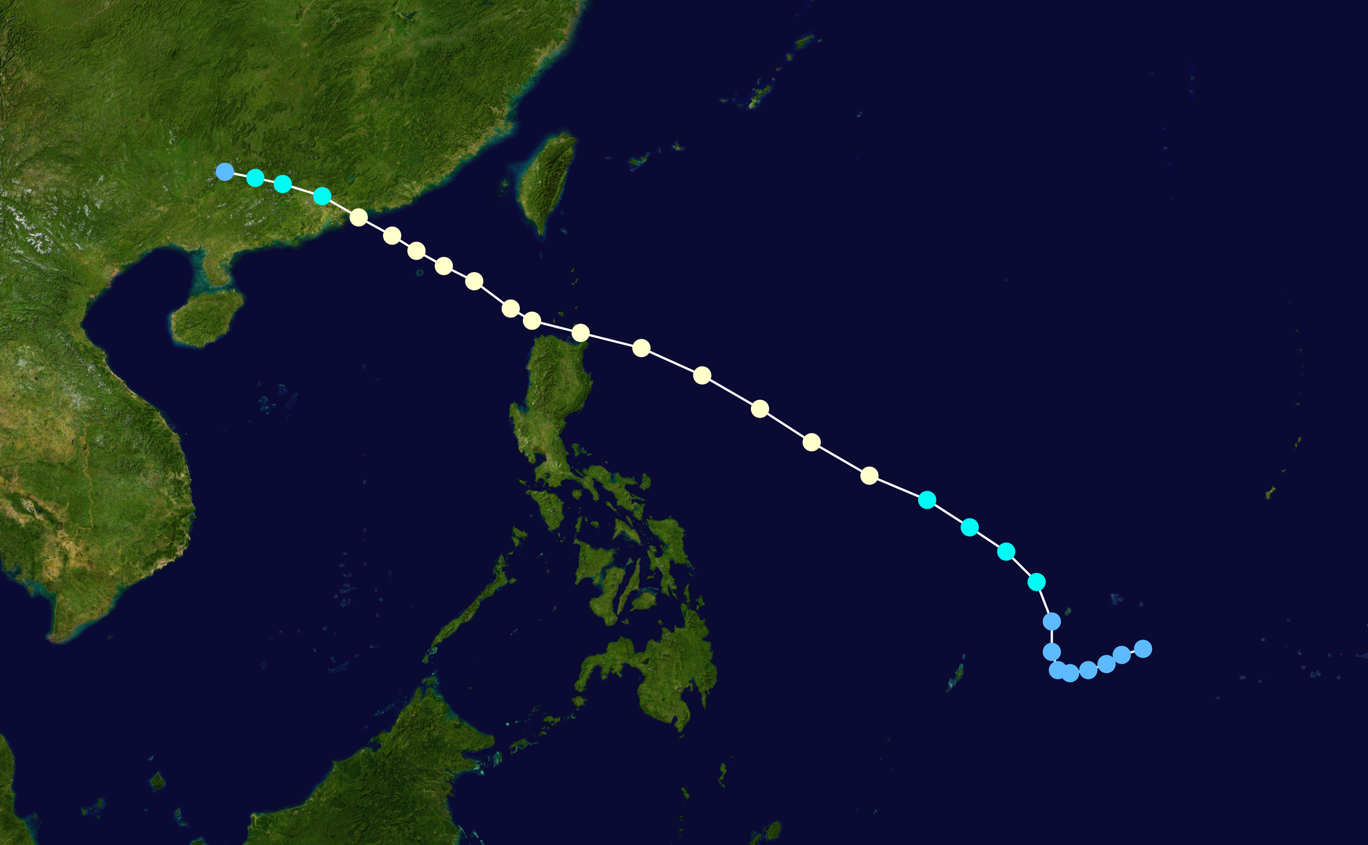 Track map of Typhoon Utor of the 2001 Pacific typhoon season. The points show the location of the storm at 6-hour intervals. The colour represents the storm's maximum sustained wind speeds as classified in the Saffir–Simpson scale (see below), and the shape of the data points represent the nature of the storm, according to the legend below. Saffir–Simpson scale Tropical depression≤38 mph≤62 km/h Category 3111–129 mph178–208 km/h Tropical storm39–73 mph63–118 km/h Category 4130–156 mph209–251 km/h Category 174–95 mph119–153 km/h Category 5≥157 mph≥252 km/h Category 296–110 mph154–177 km/h Unknown Storm type Tropical cyclone Subtropical cyclone Extratropical cyclone / Remnant low / Tropical disturbance / Monsoon depression